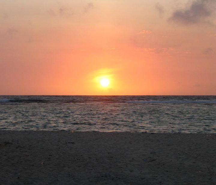 Cayo Sal